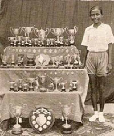 Ila Mitra at School